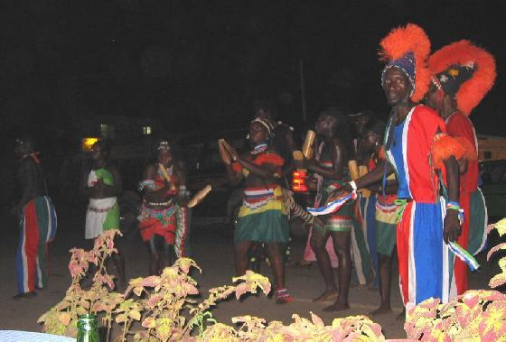 Senegambia, dancing in the street. Dancing, singing and drumming